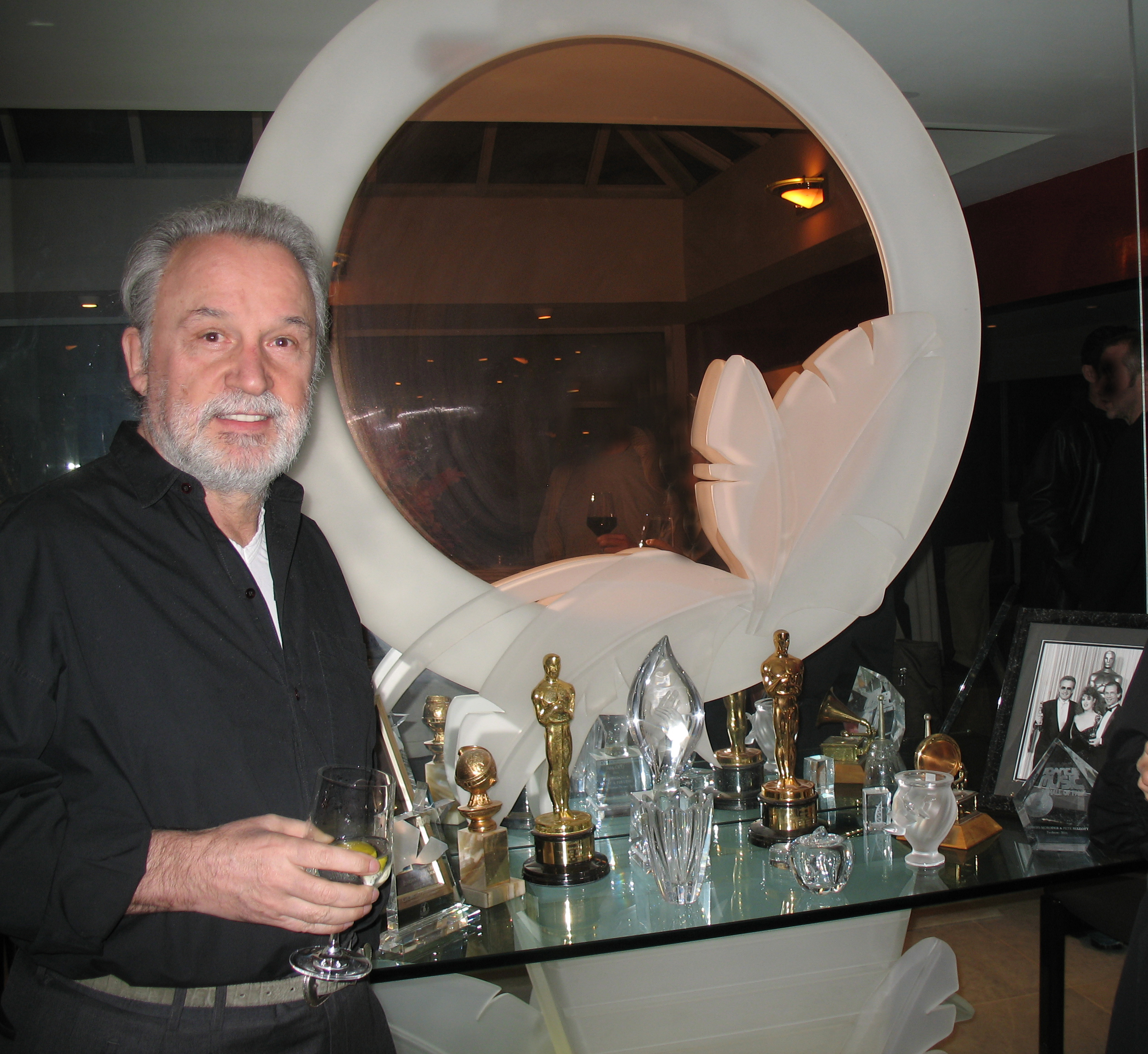 Portrait of Giorgio Moroder, a music composer, with some of his awards.